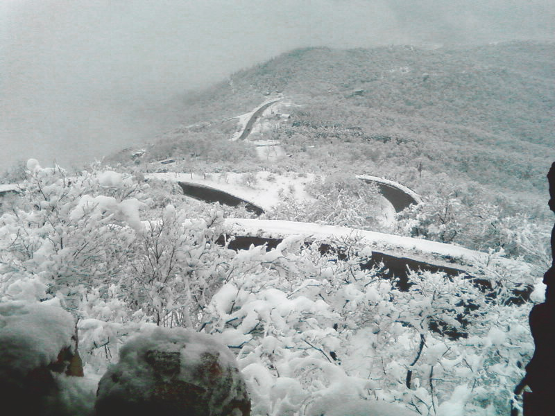 Shemakha_pass_azerbaijan.jpg